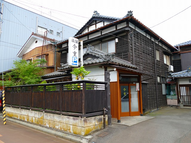 Imaju Ryokan, a Ryokan (inn) in Nagaoka, Niigata Prefecture, Japan